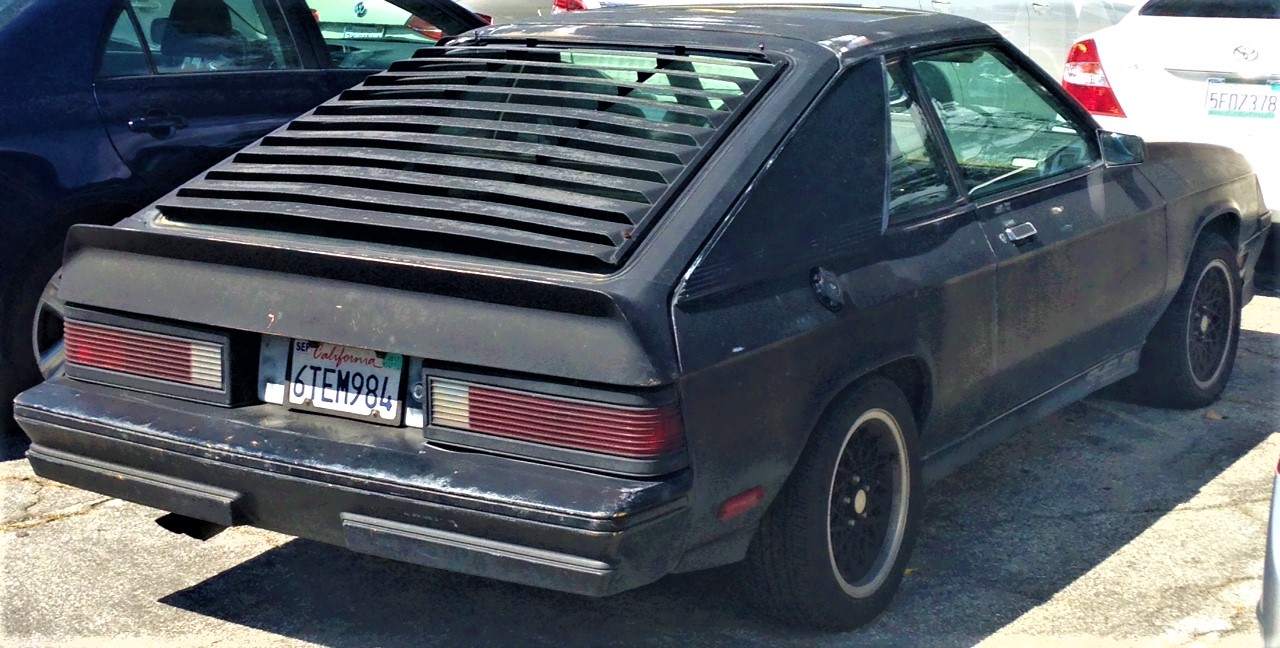 Dodge Charger (L-body)